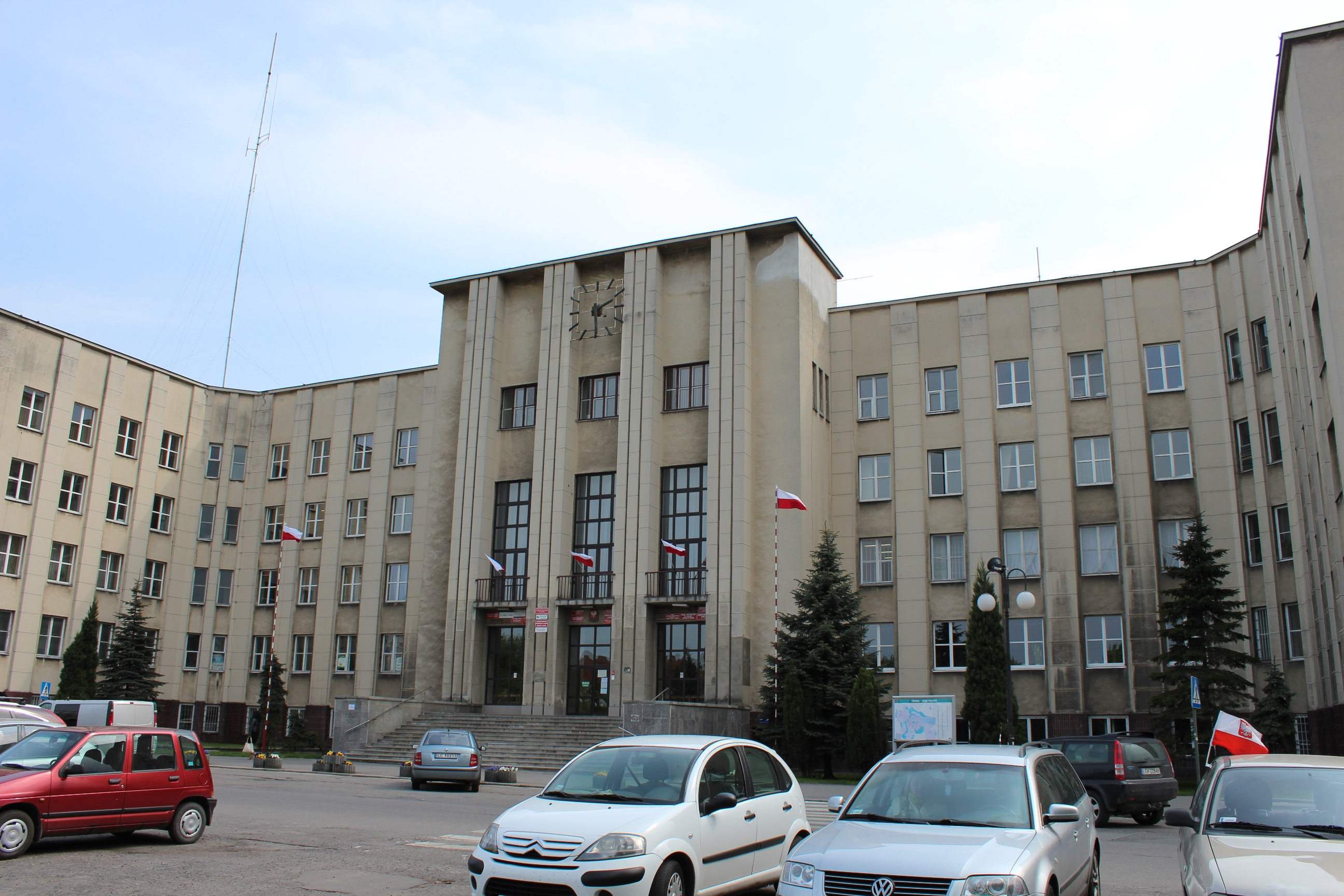 District office building, Chełm